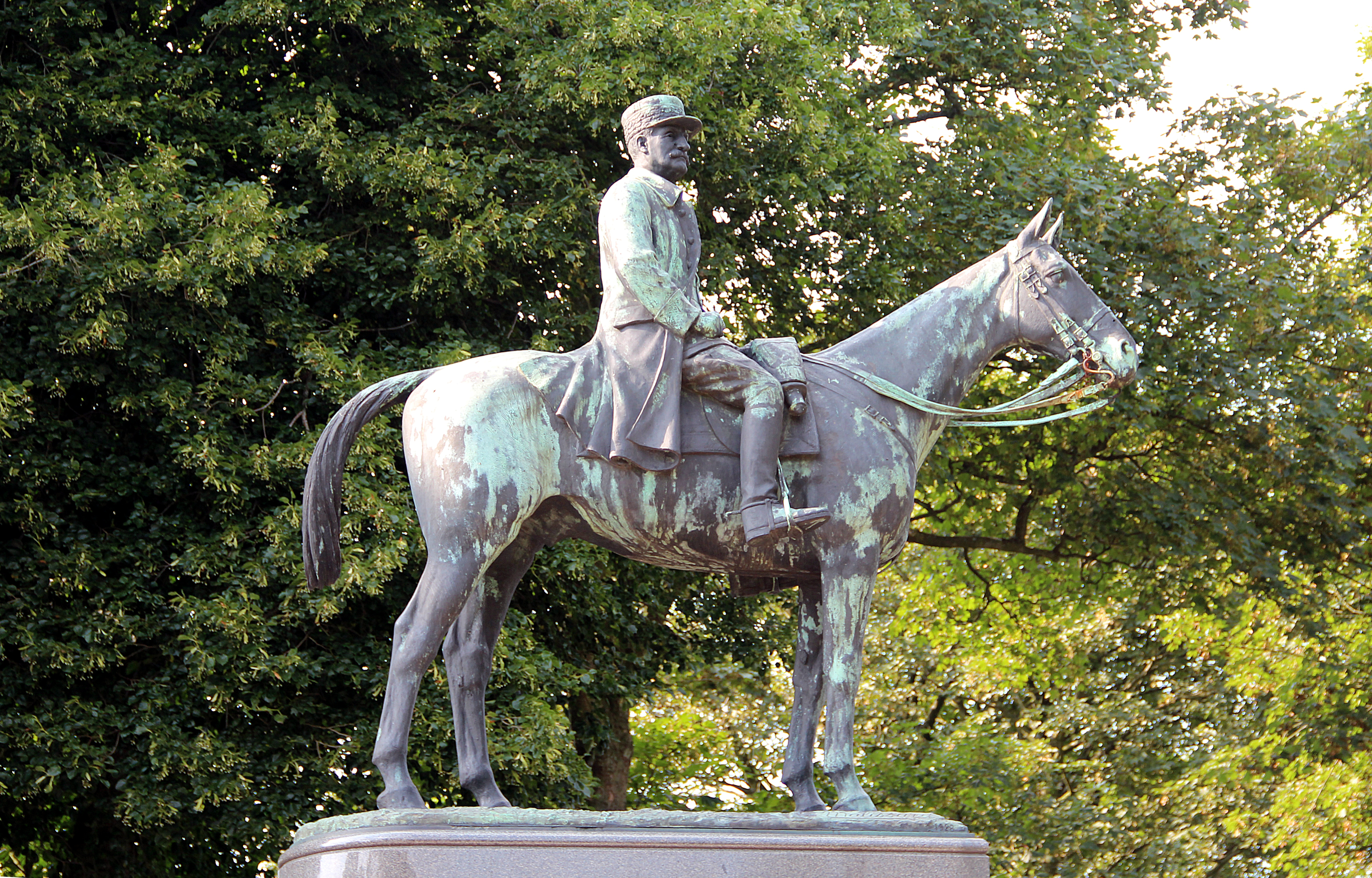 Equestrian statue of Marshal Foch work of the sculptor Georges Malissard erected in the public garden of Cassel (department of Nord, France).